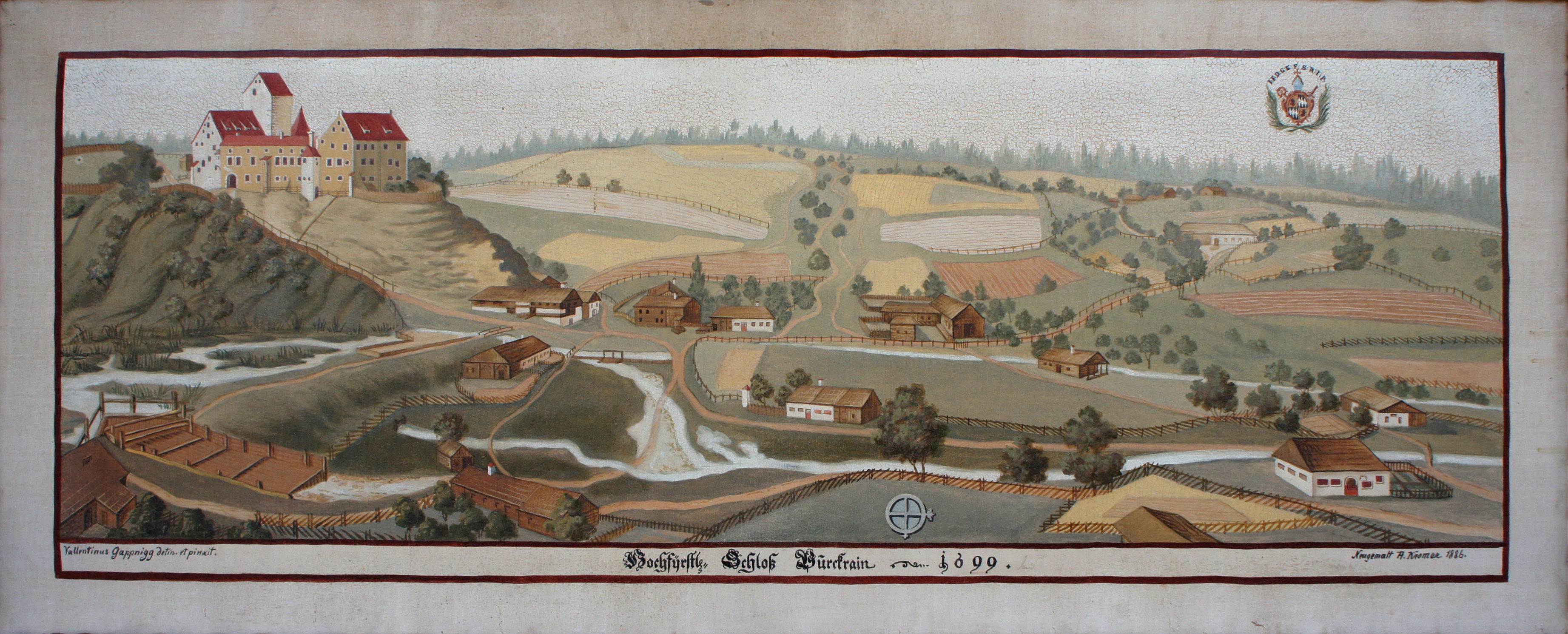 View of Schloss Burgrain, Bavaria. Part of a series of 32 paintings executed by Valentin Gappnigg between 1698 and 1702. Gappnigg had been commissioned by the prince-bishop of Freising, Johann Franz Eckher von Kapfing und Liechteneck, to paint views of the various possessions of the prince-bishopric. While the core territories of Freising were located in Bavaria, it also included several far-flung enclaves located inside Tyrol, Styria, Carinthia, Lower Austria and Carniola (now Slovenia).